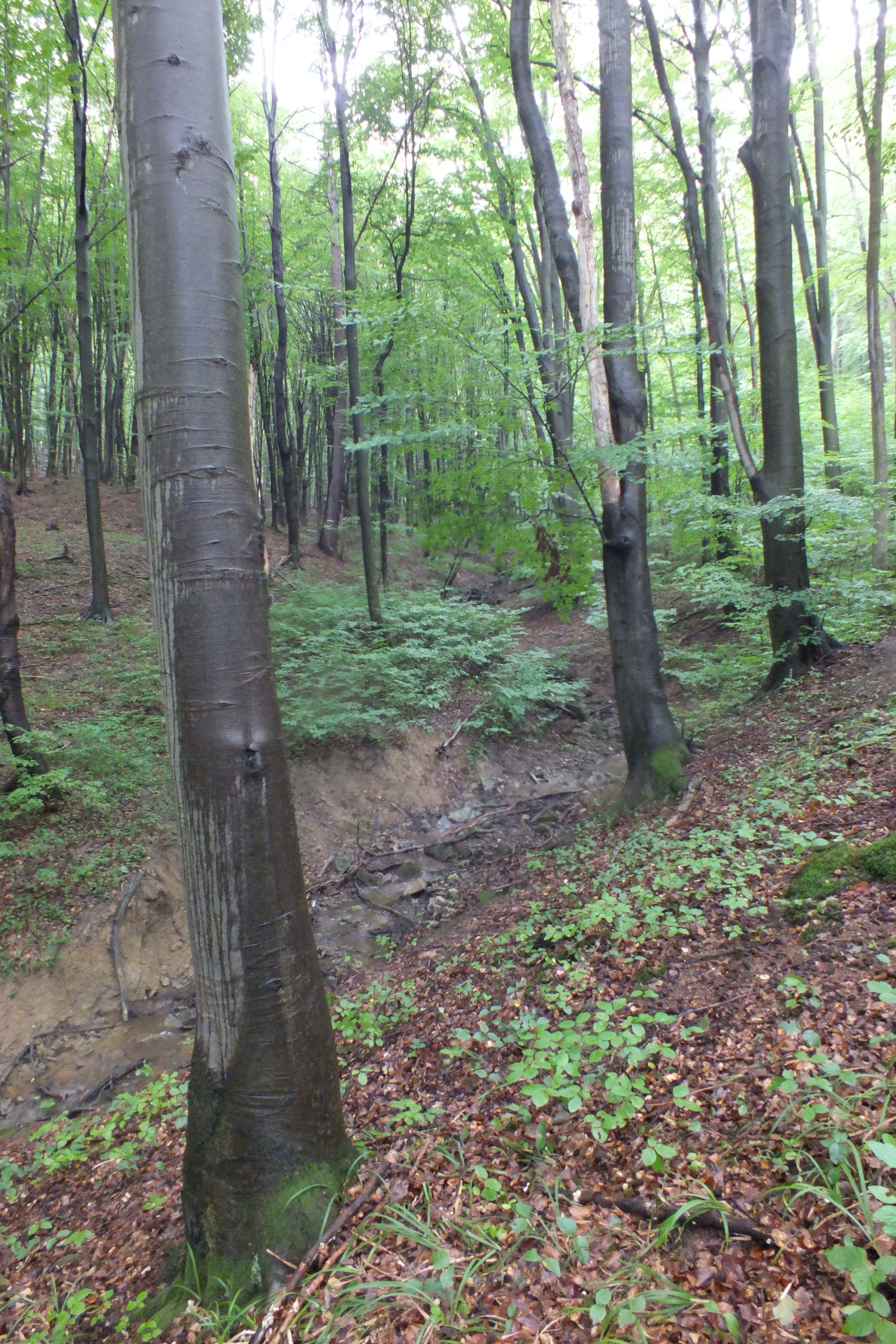 Kaštinka, a brook in the White Carpathians, on the border of the Czech Republic and Slovakia.